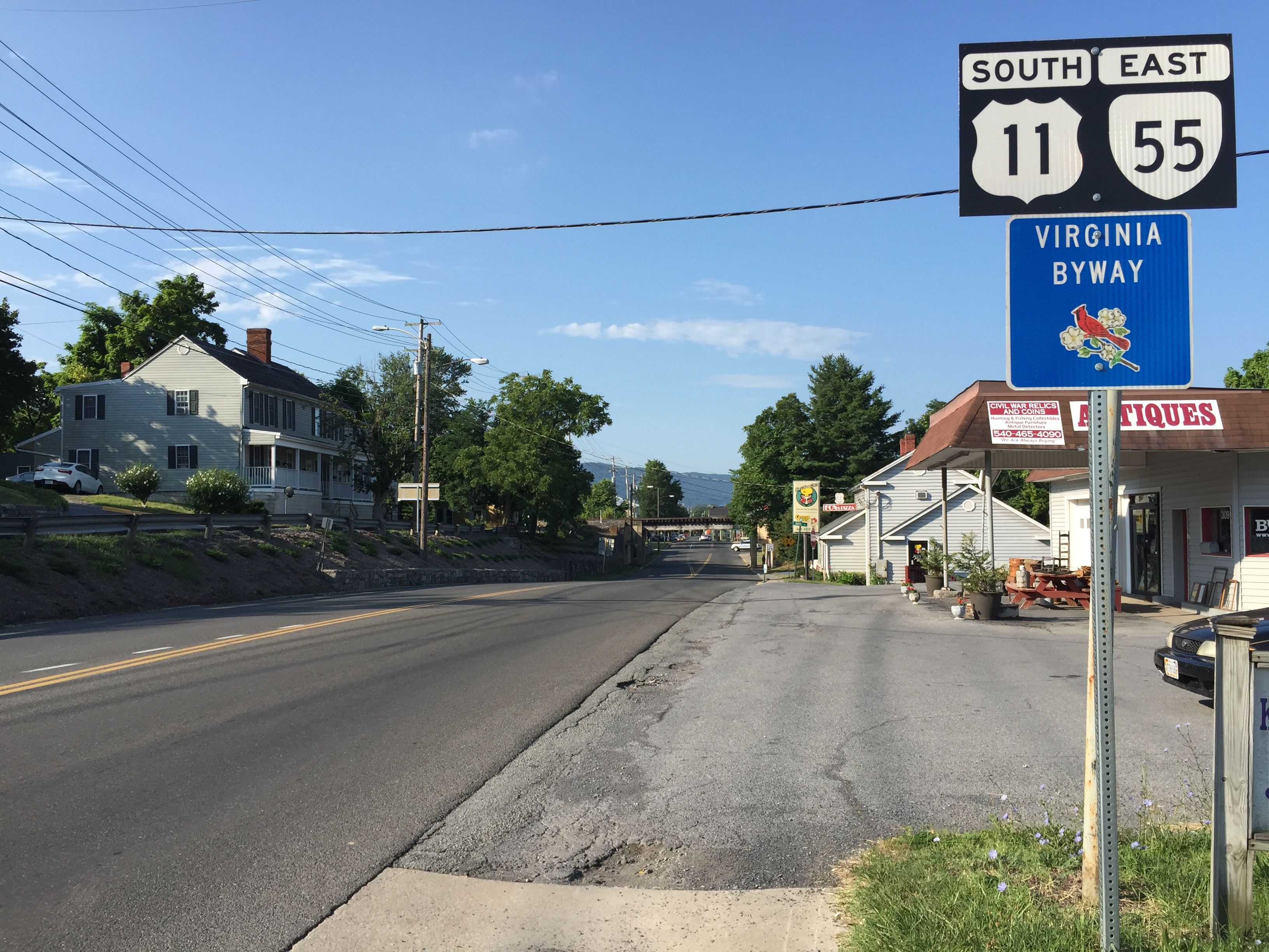 View south along U.S. Route 11 and east along Virginia State Route 55 (Massanutten Street) just north of North Street in Strasburg, Shenandoah County, Virginia